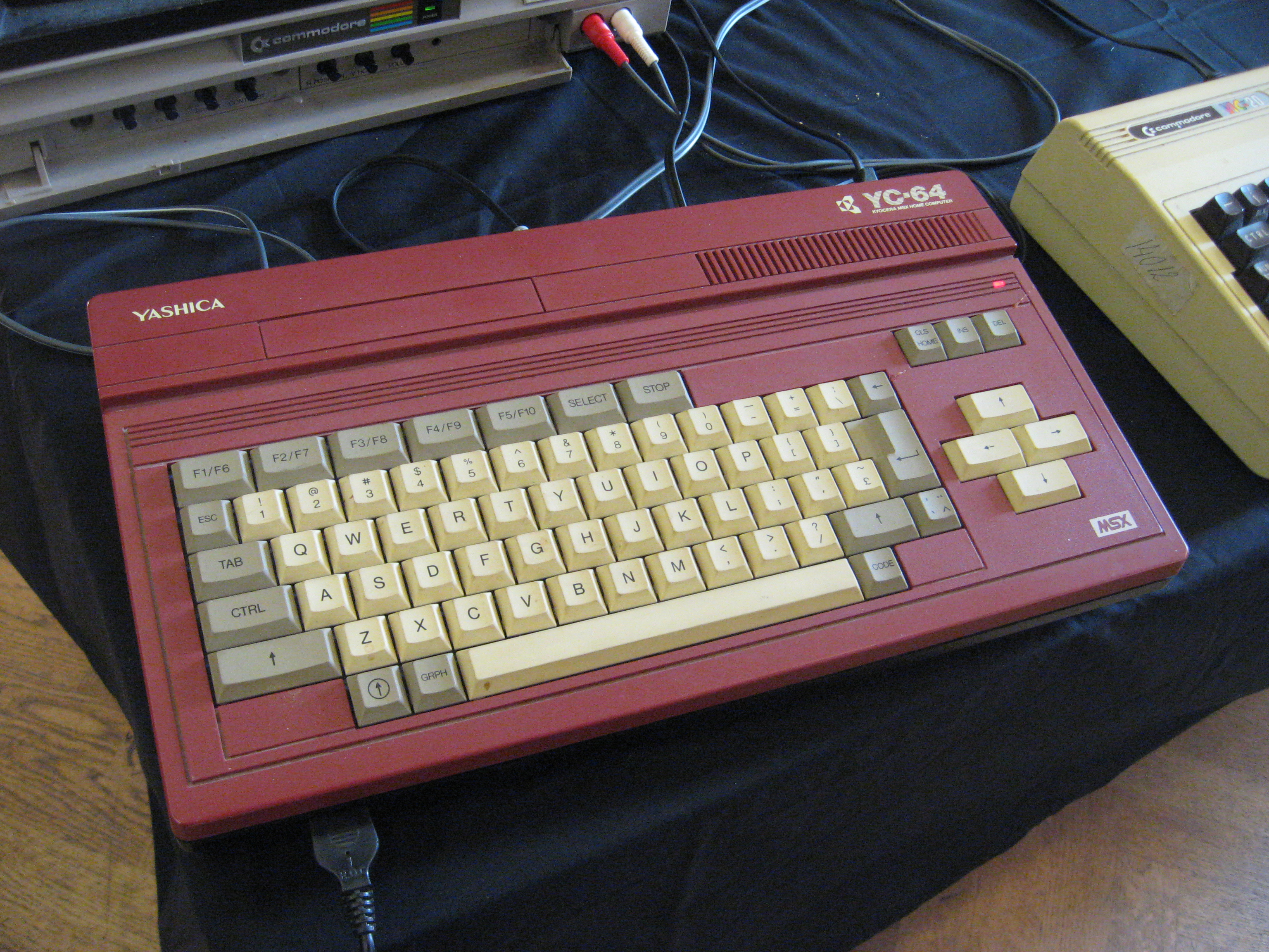 Yashica YC-64, MSX 1 computer made by Kyocera and sold by Yashica.